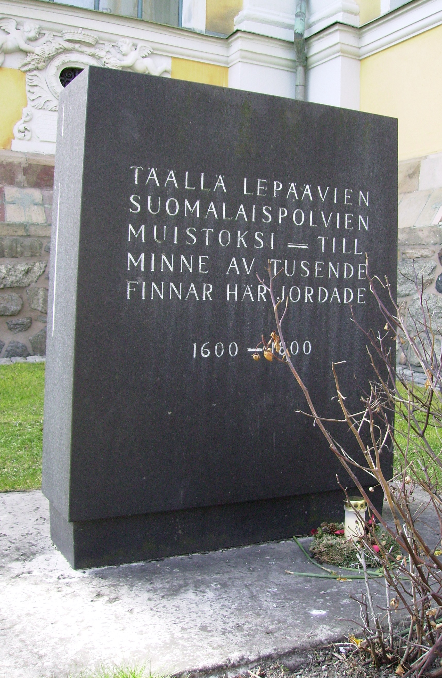 Picture of monument to memory of thousends of Finns buried in Katarina kyrkogård in Stockholm